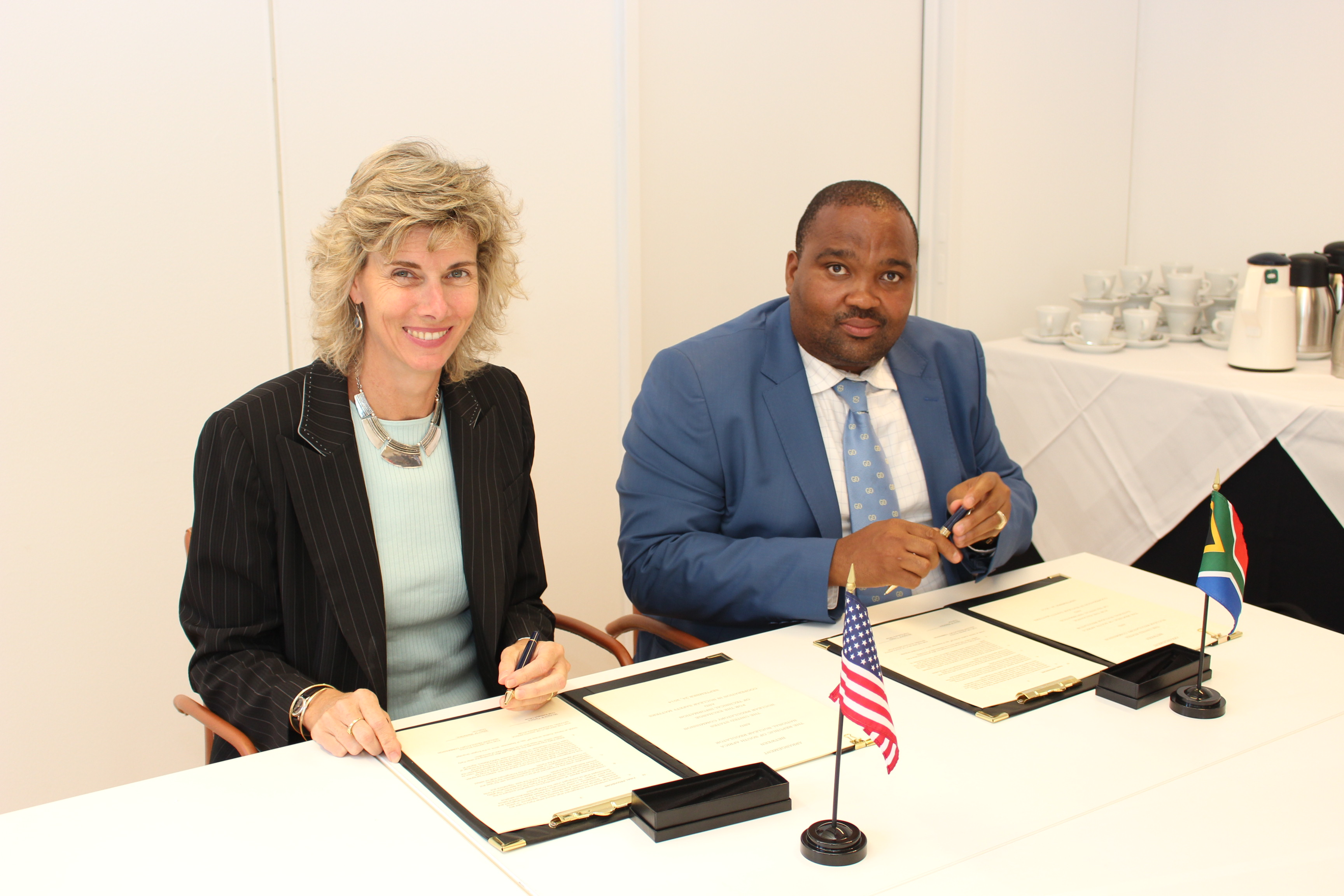 NRC Chairman Allison Macfarlane and Bismark Tyobeka, CEO, National Nuclear Regulator of South Africa, a bilateral arrangements for technological cooperation and exchange of information in at the 58th General Conference of the International Atomic Energy Agency in Vienna, Austria. Our photo usage guidelines can be found here: Visit the Nuclear Regulatory Commission's website at To comment on this photo go to . Photo Usage Guidelines: Privacy Policy